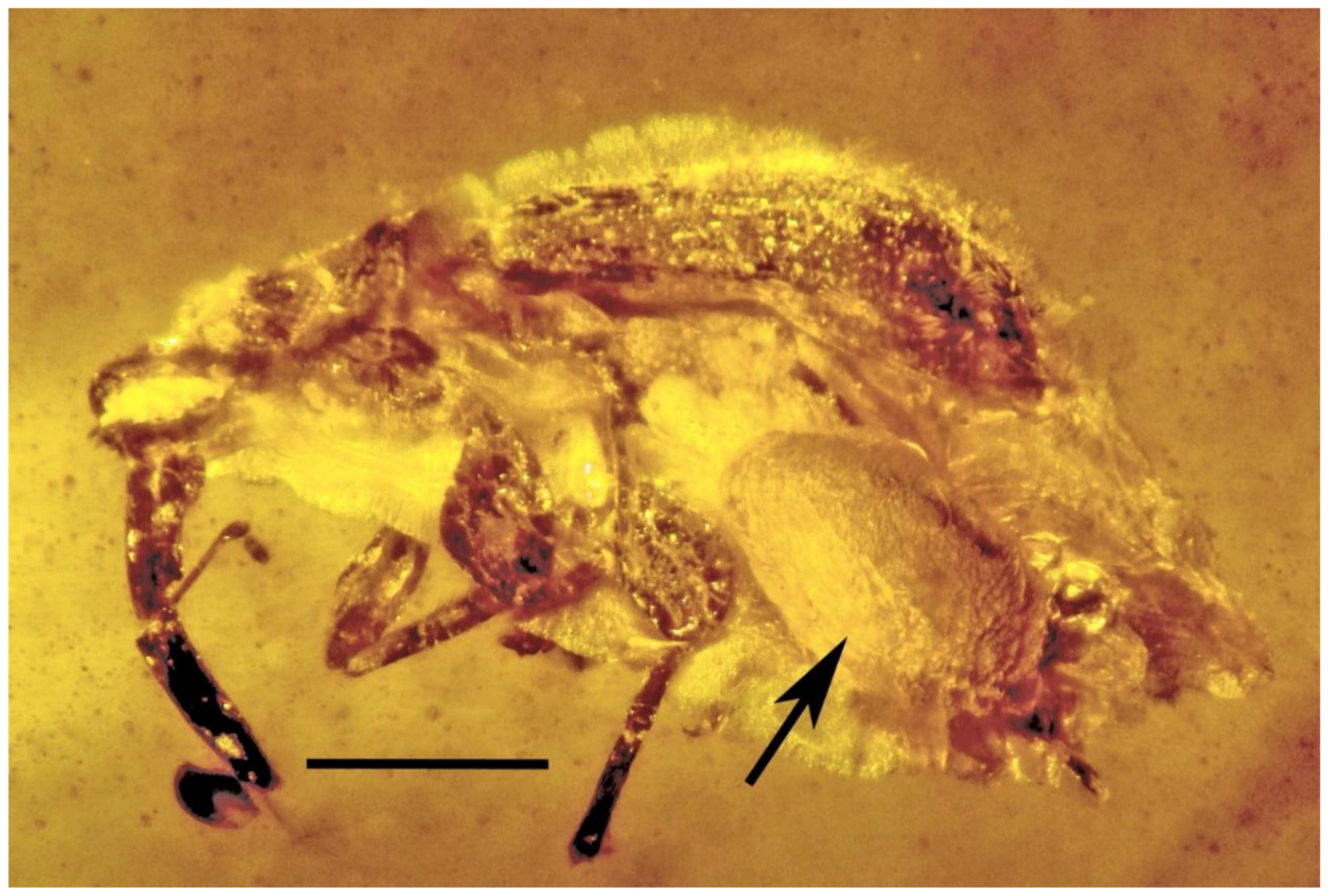 A parasitized weevil, Habropezus plaisiommus (Coleoptera: Mesophyletidae), with a euphorine braconid cocoon (arrow) (Hymenoptera: Braconidae) in Burmese amber. Scale bar = 800 µm.